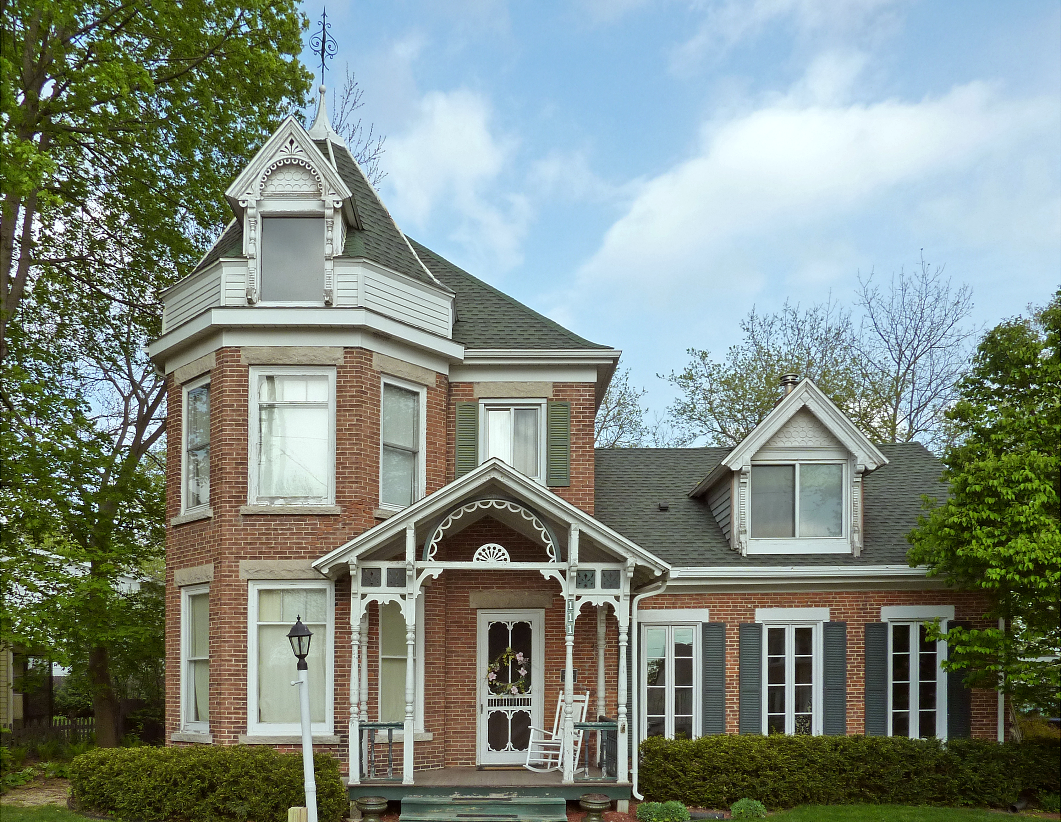 The Jens and Ingeborg Cold House at 111 S. Fifth Street in Stoughton, Wisconsin, was built in 1892 and added to the National Register of Historic Places in 2003.